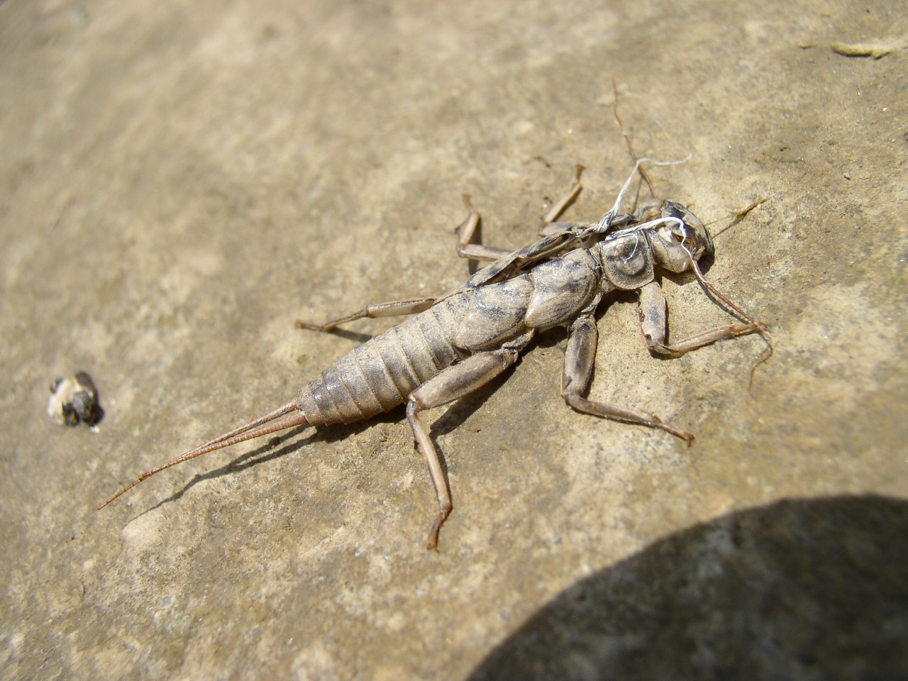 Some kind of Plecoptera (stonefly) exuvia, very probably family Taeniopterygidae. (identification by anonymous entomologist at Oxford University Museum of Natural History) --Sarefo Photo was made in Carpathian mountains region, West Ukraine.